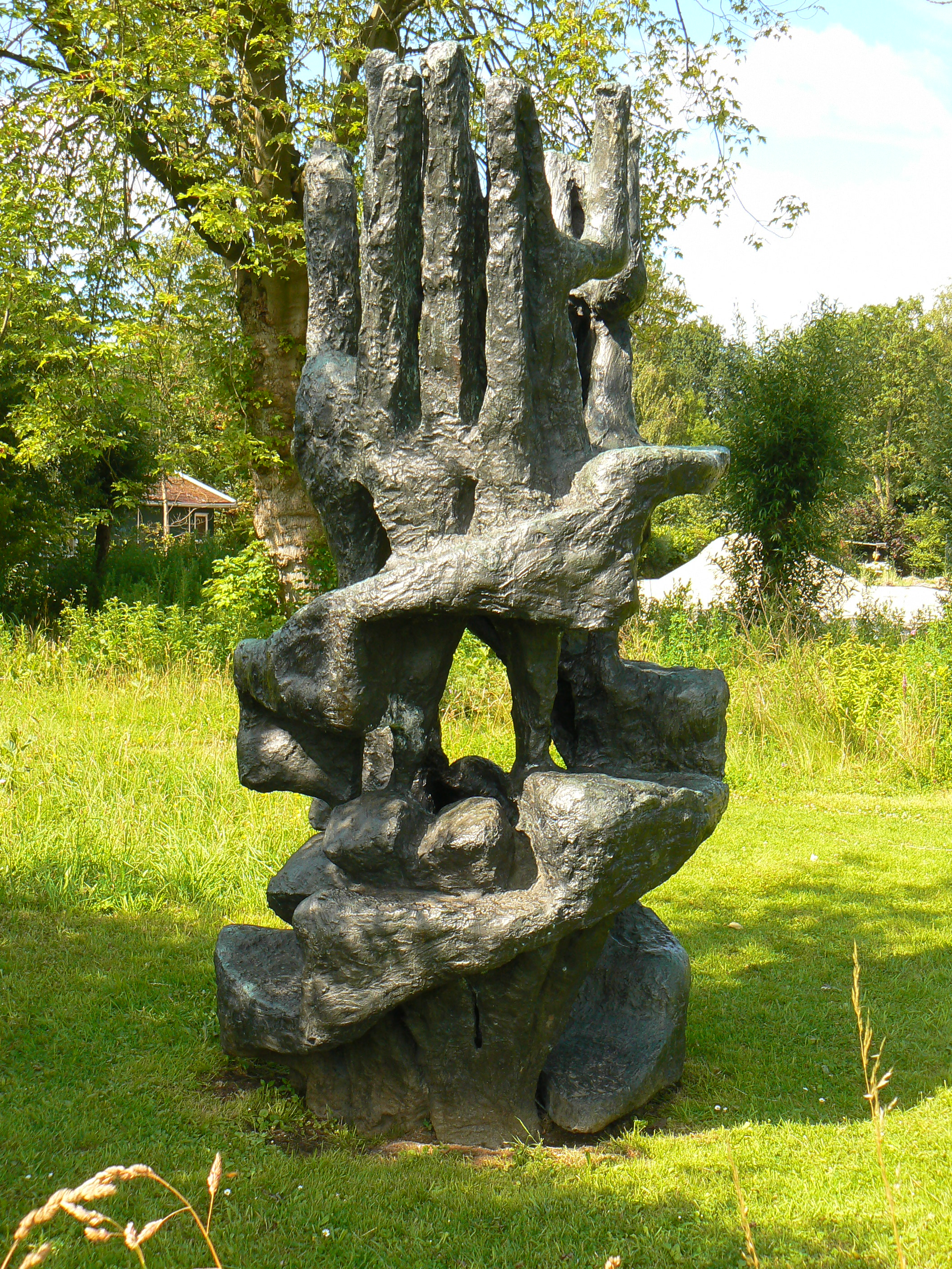 Sculpture Woning 4 (1961) by Henri Étienne Martin, Siegerpark in Amsterdam/The Netherlands